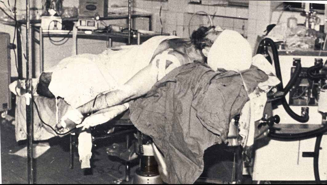 Ayatollah Mohammad Mofatteh in Hospital after Assassination